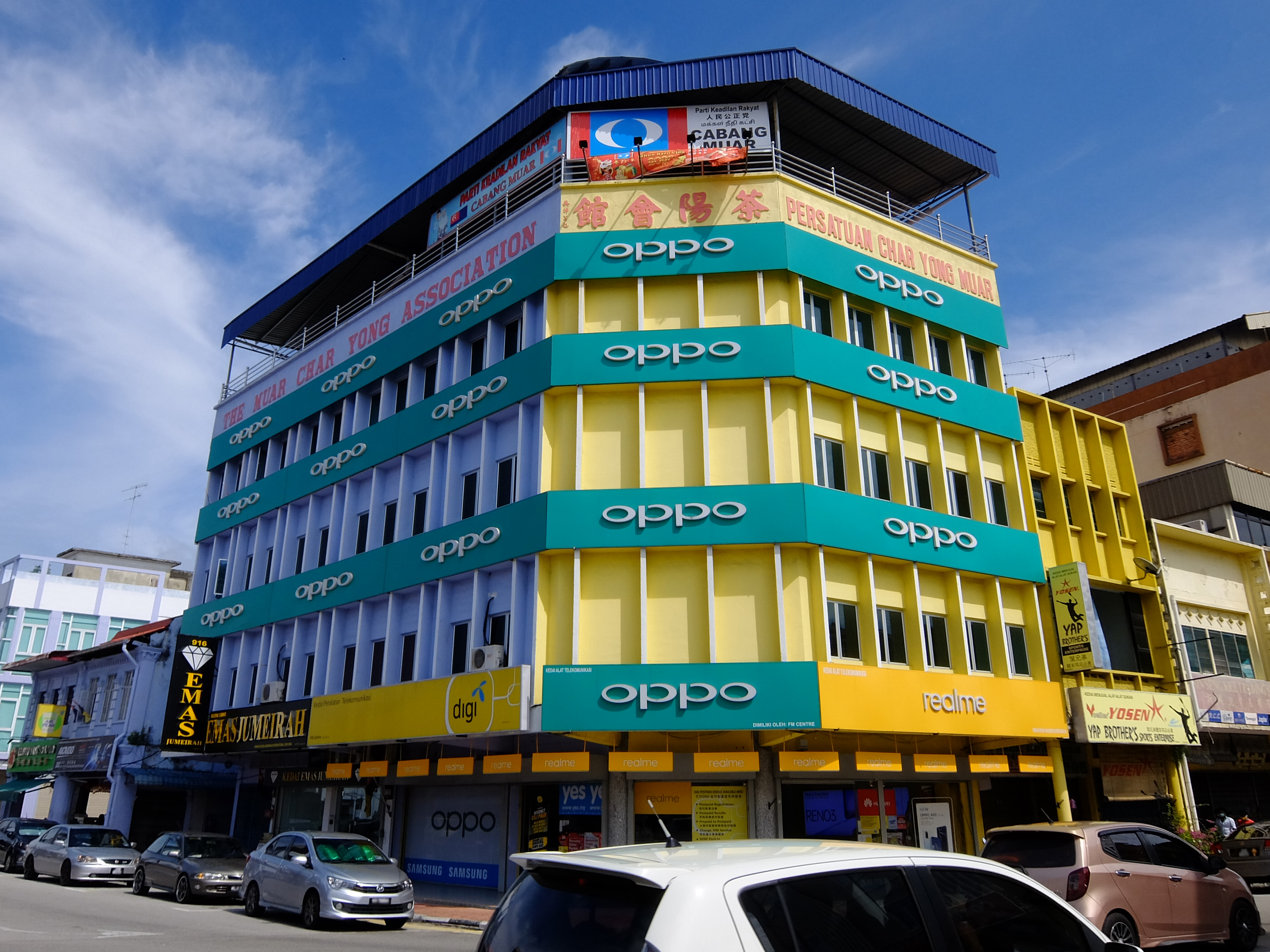 The Muar Char Yong Association, Bandar Maharani, Muar, Johor, Malaysia